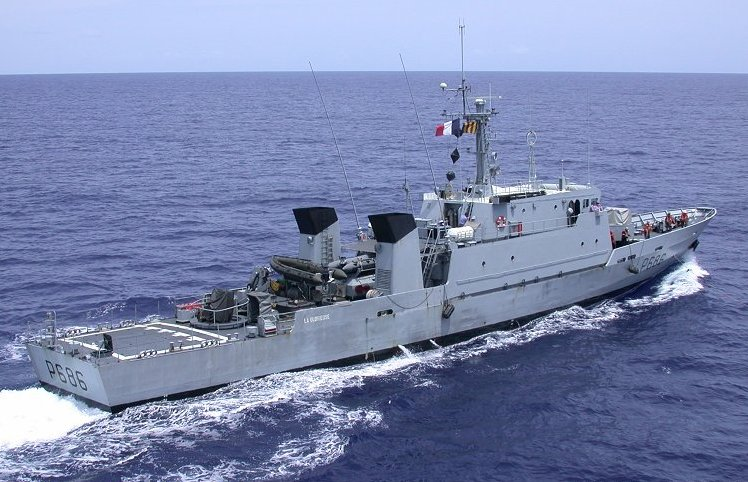 Patrol ship Glorieuse at sea next to Nouméa (16 November 2002)